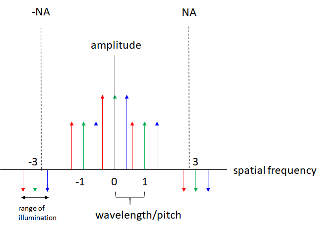 The spectrum of diffraction orders for a line-space pattern (pitch just under 3 wavelength/NA) is shown with the range of illumination angles also indicated by the color range. References: B. Smith, Proc. SPIE 3334, 142 (1998); N. Zeggaoui et al., Proc. SPIE 7823, 78233Y (2010).